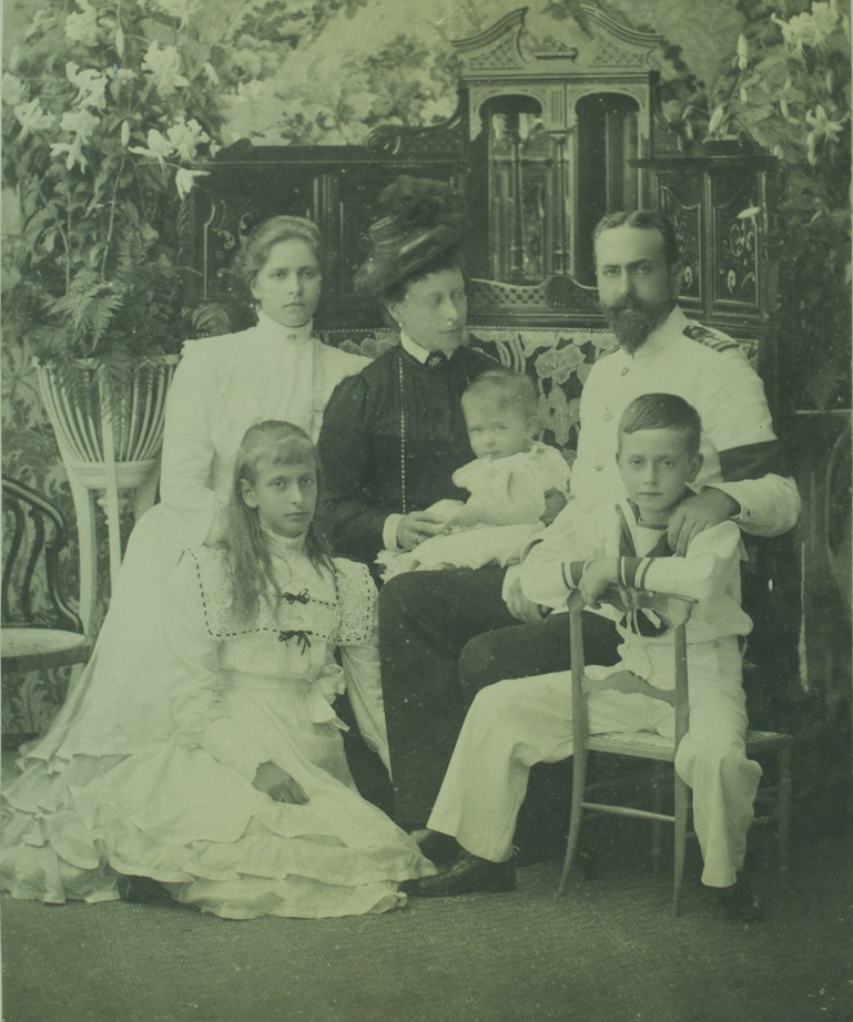 Photograph of the Battenberg family from the album of Victoria, Princess Louis of Battenberg